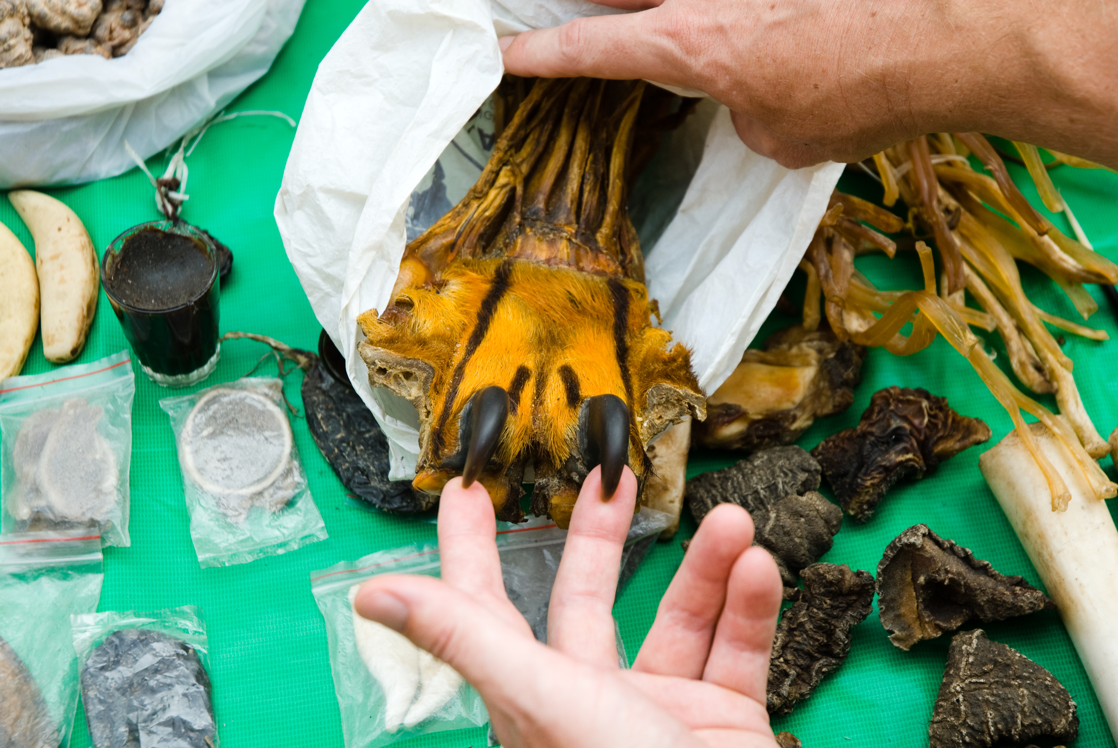 Illicit Endangered Wildlife Trade in Möng La, Shan, Myanmar Tiger Paw and Teeth and Tallow and parts for sale